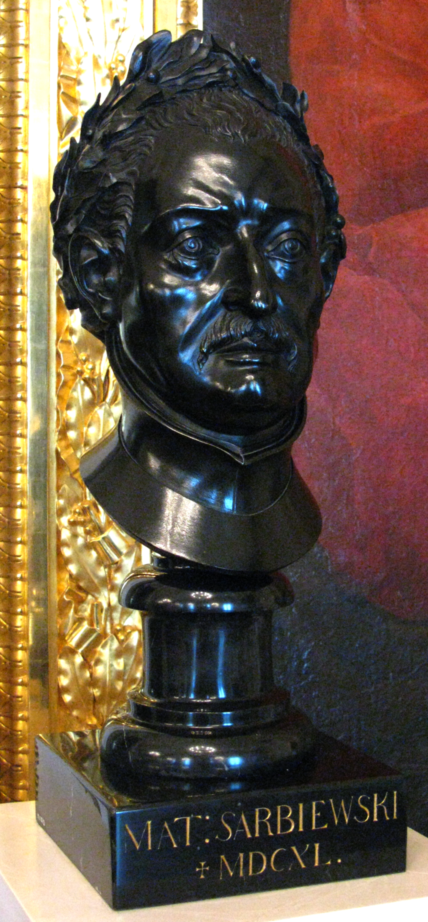 Buste of Maciej Kazimierz Sarbiewski by André Le Brun in Warsaw Royal Castle